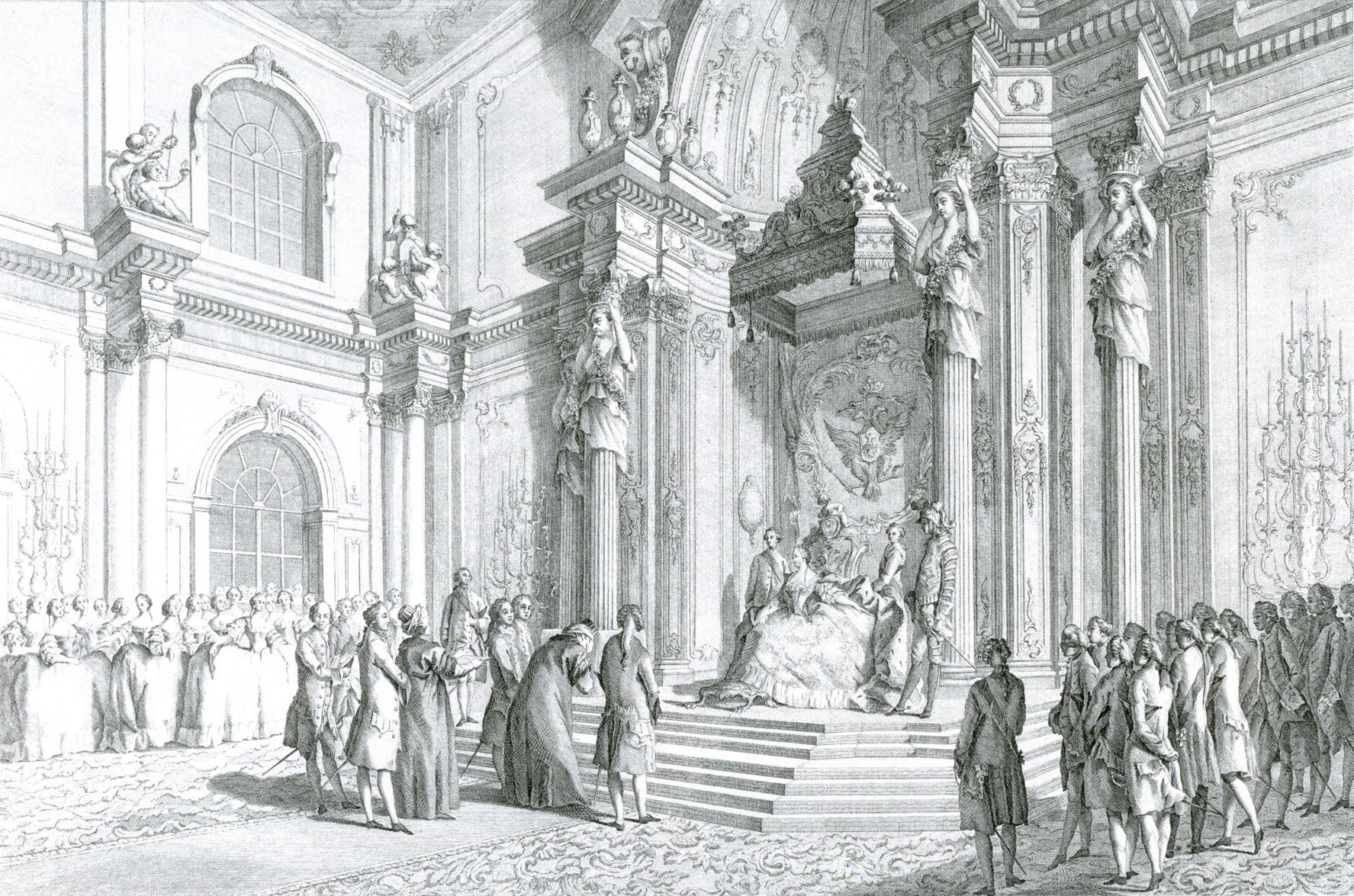 Receiving the Turkish Embassy in the Winter Palace